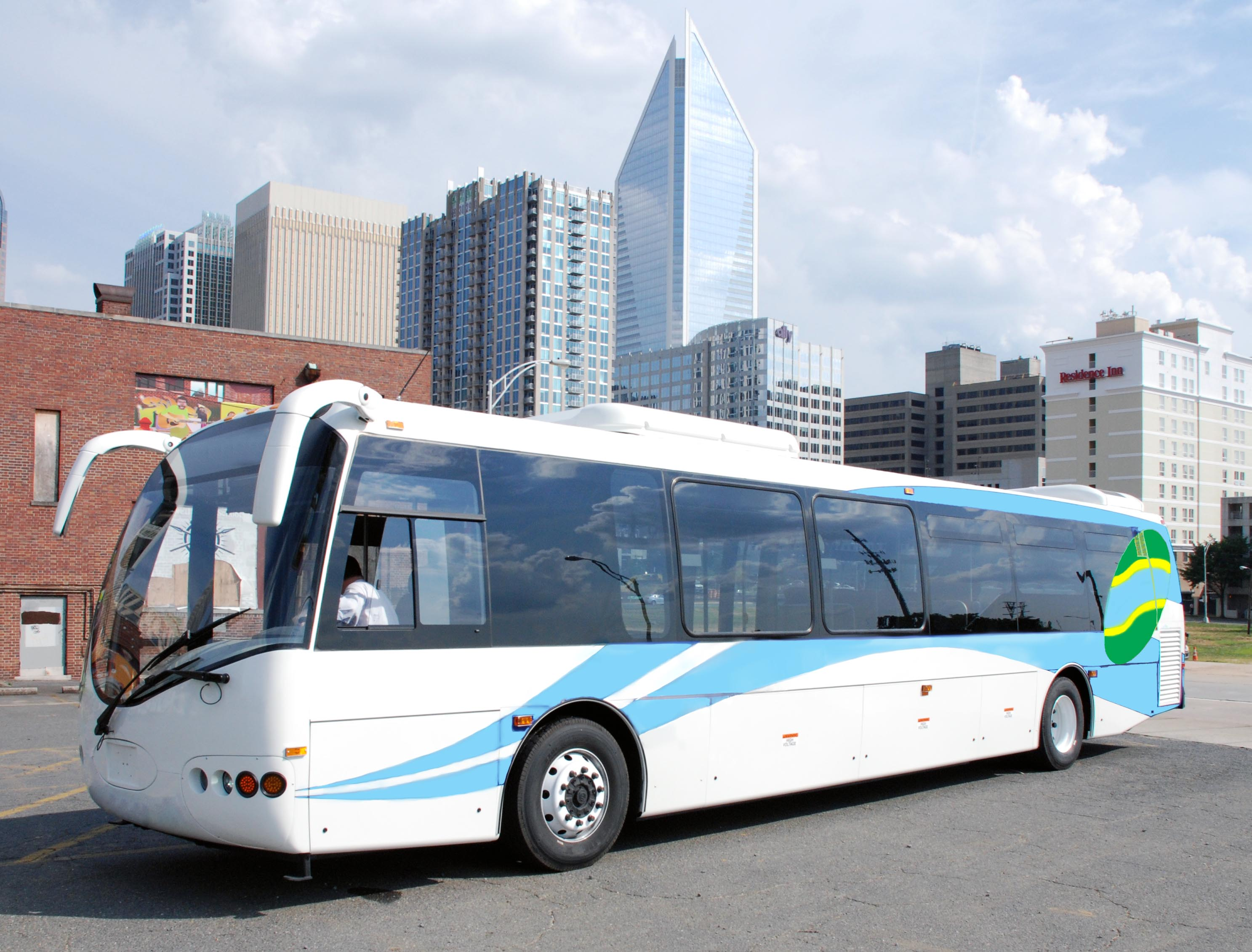 Electric bus foreground, city skyline background